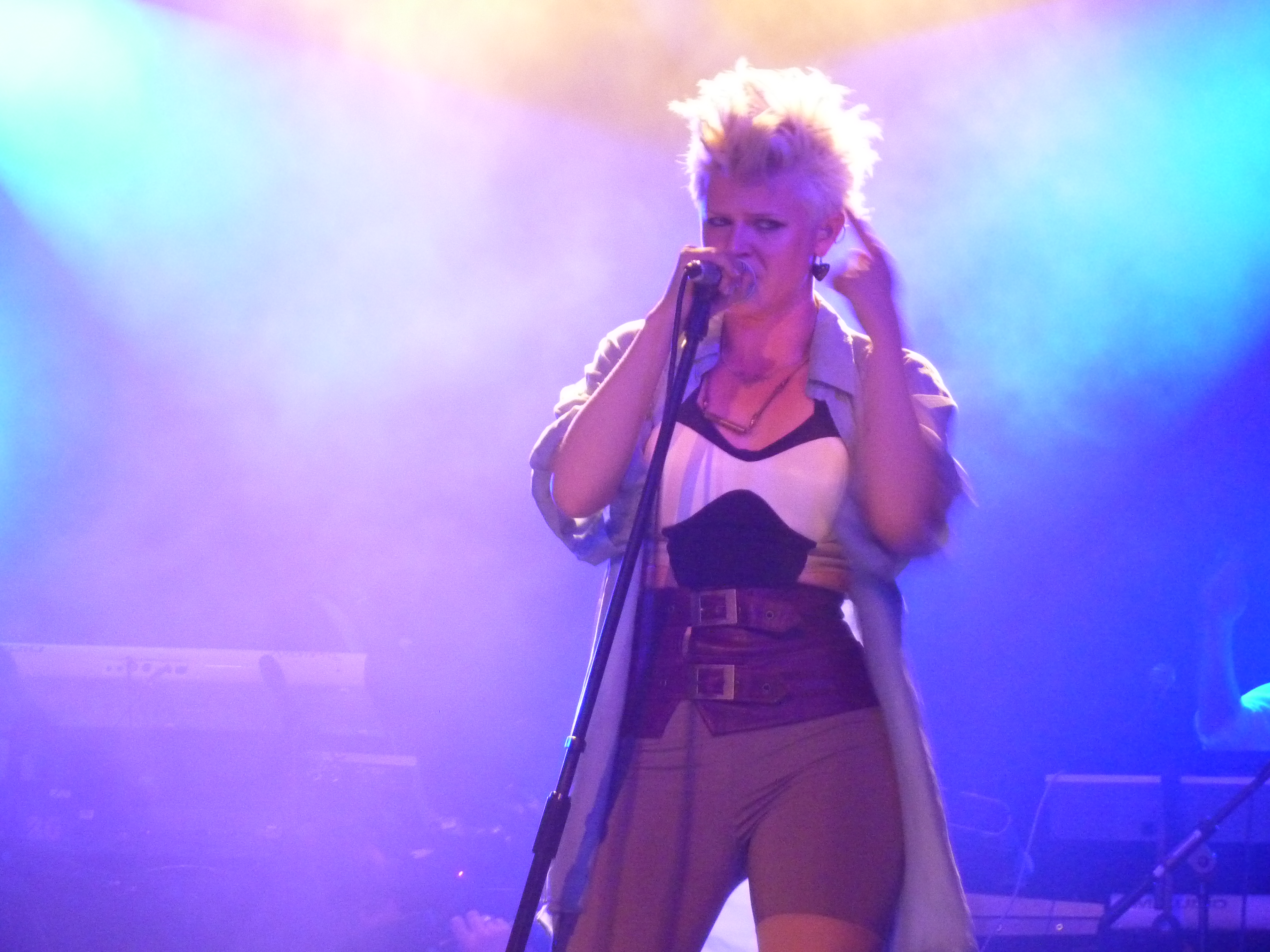 Robyn performing in Heaven nightclub, London, UK, on 17 June 2010.